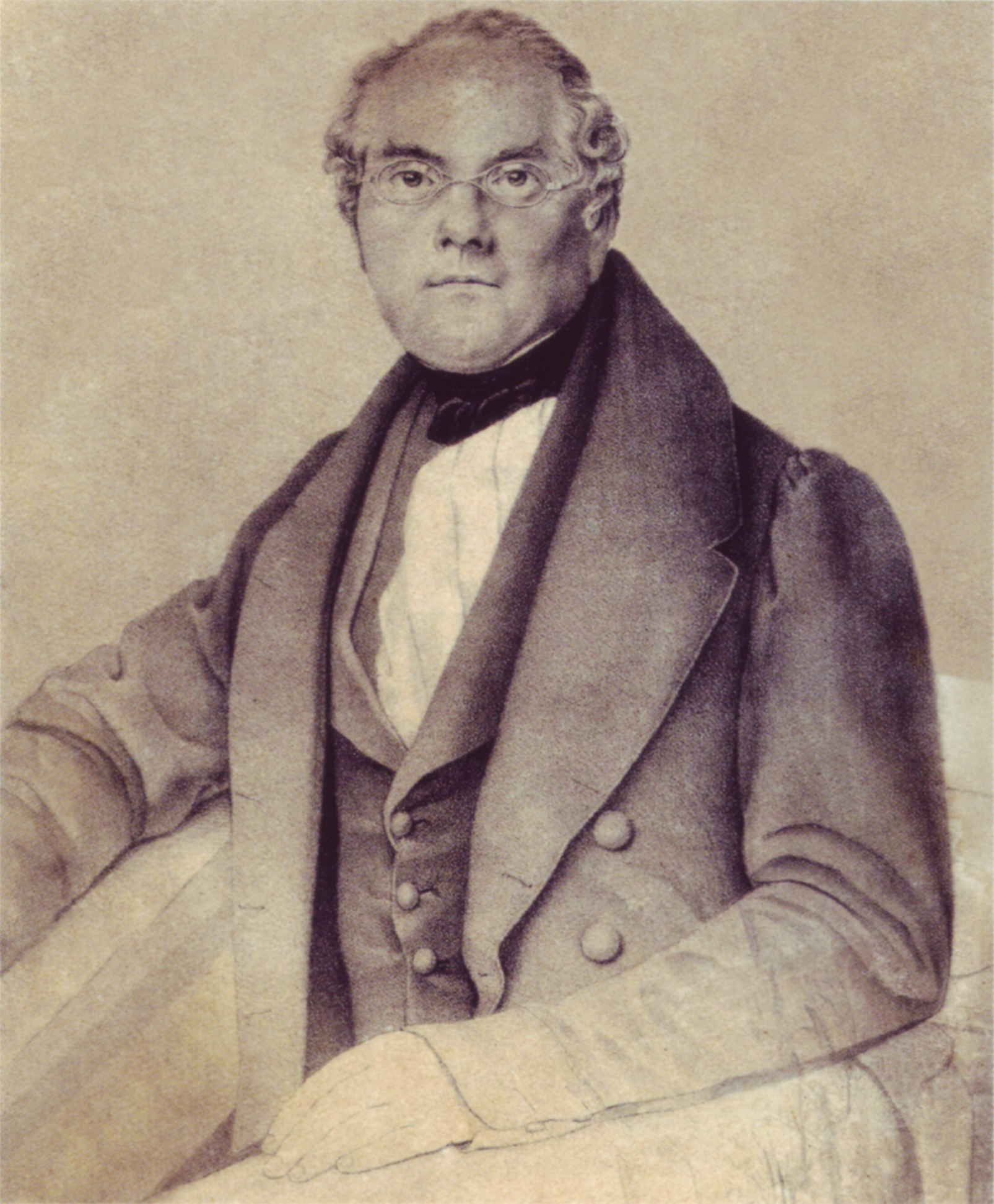 Lithograph of Emil Reiniger